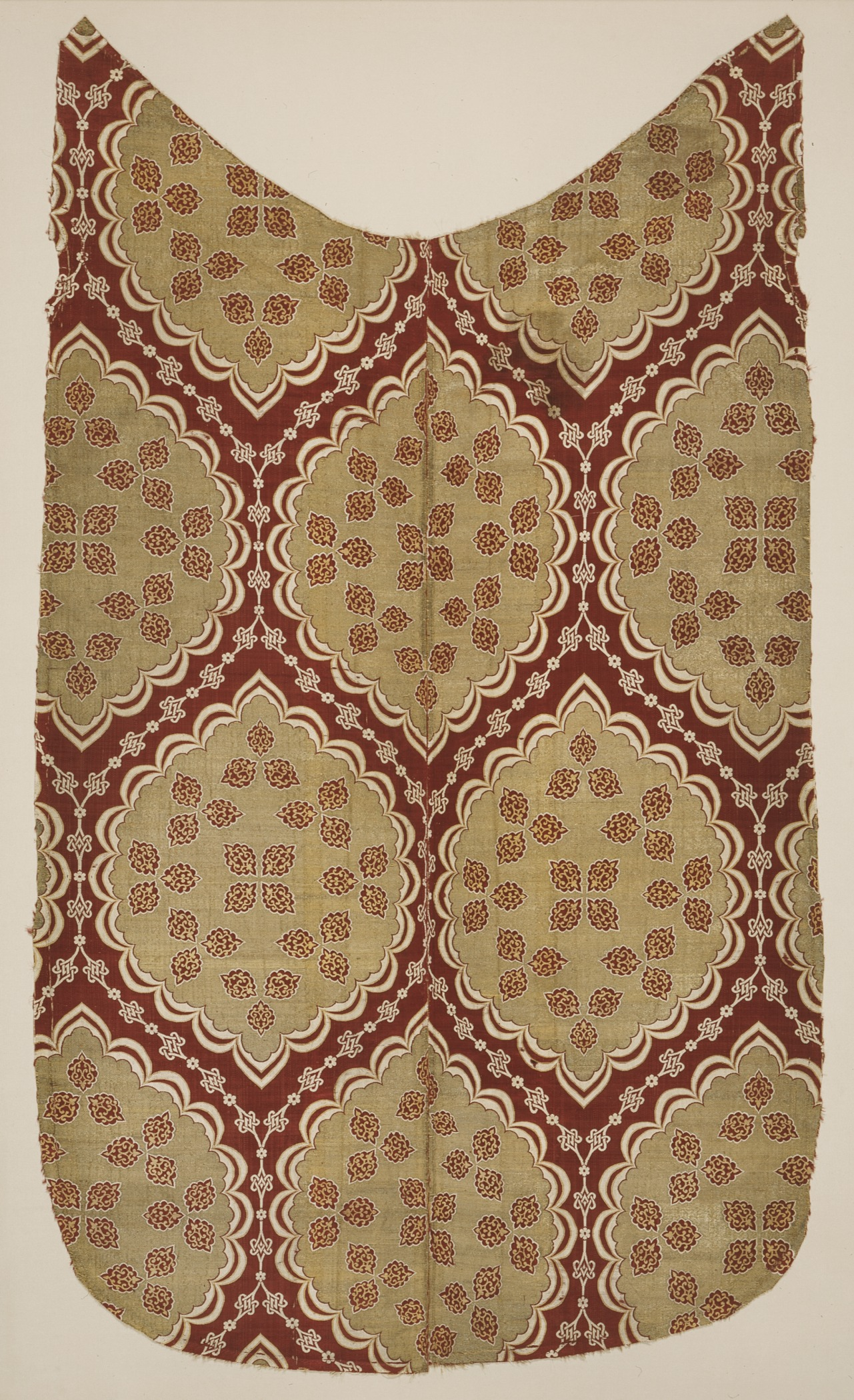 Turkey, Bursa or Istanbul, 16th century Textiles; textile lengths Silk and metallic thread supplementary weft patterning brocaded on silk ground 53 x 30 3/4 in. (134.62 x 78.105 cm) Gift of Edwin Binney, 3rd (M.74.6) Costume and Textiles